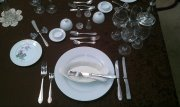 Served in an Au Gratin Dish